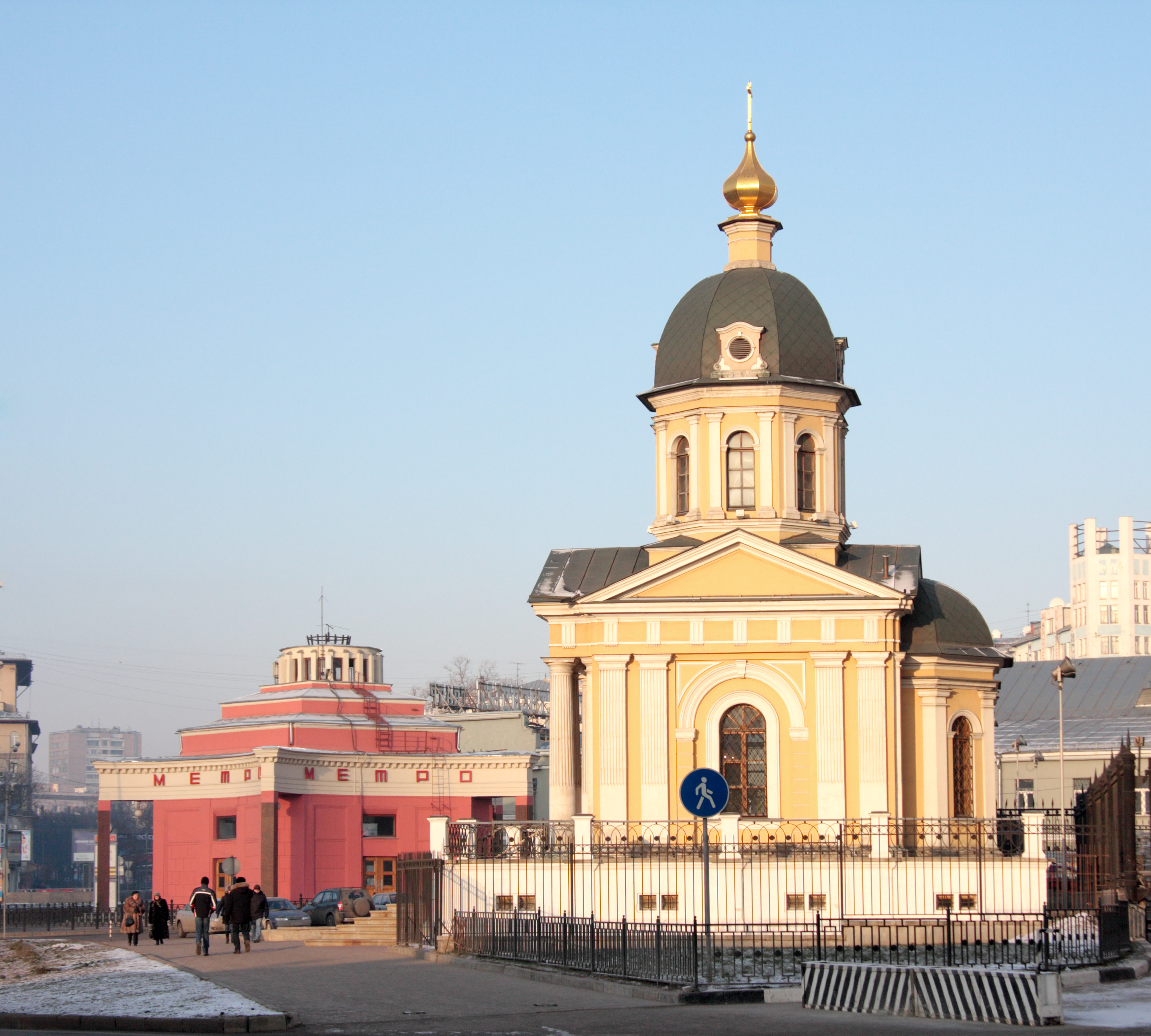 Boris and Gleb chapel, Arbatskaya metro station emtrance at the Arbat square in Moscow, Russia